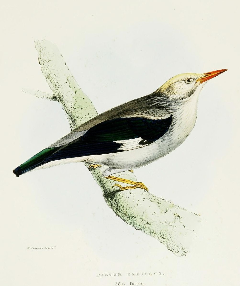 f.' Stvcvuwi'n' E-i^T^, '•^^%^. -.."-'o: IP .A S T O F- S E R I C E U SlE^V Tastor